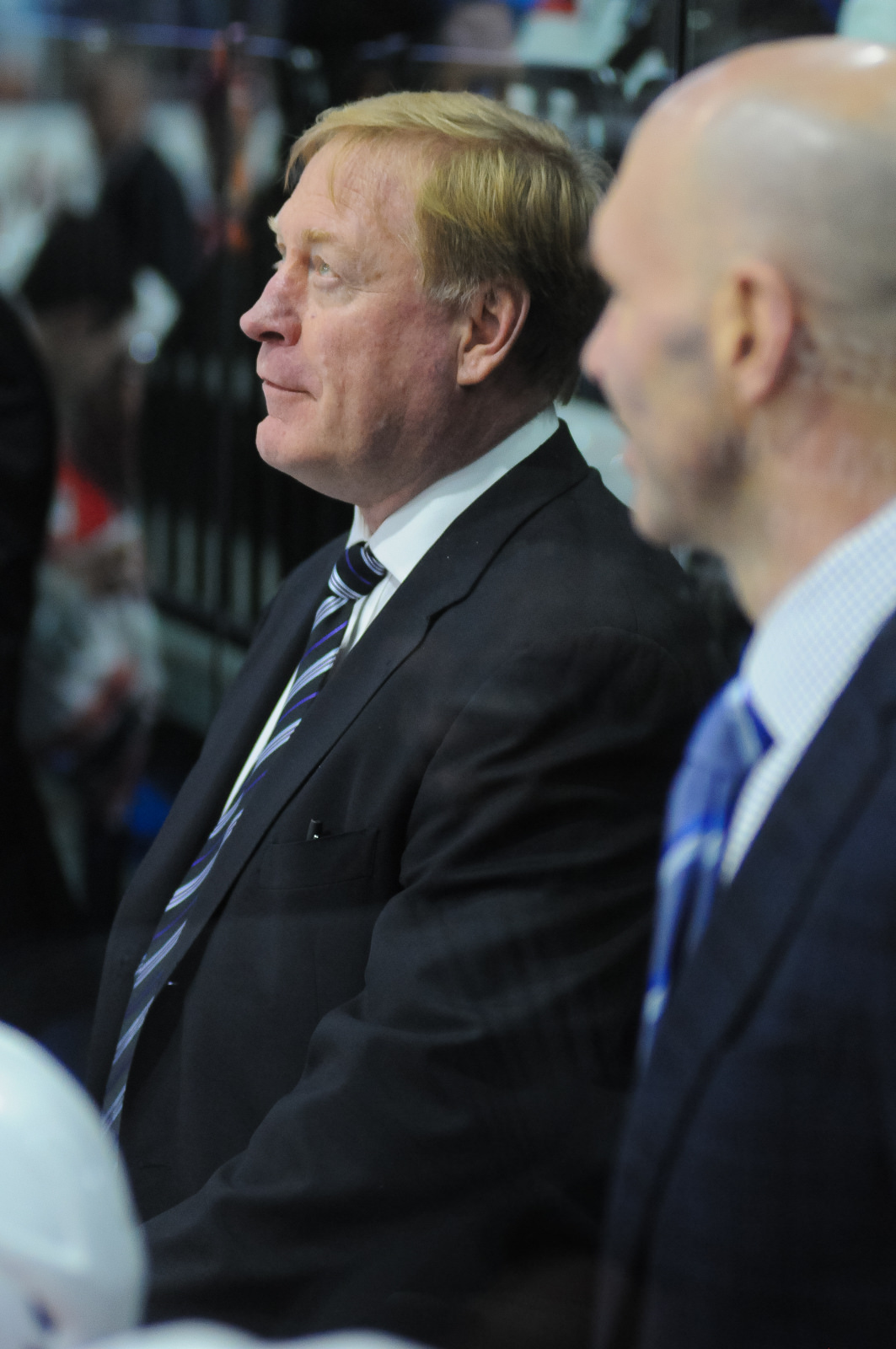 Lindsay A. Mogle/AHL